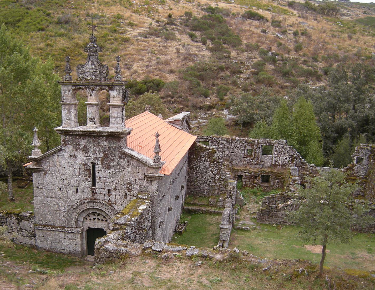 Church and ruins of the Monastery of Santa Maria de Pitões das Júnias, Montalegre, Portugal